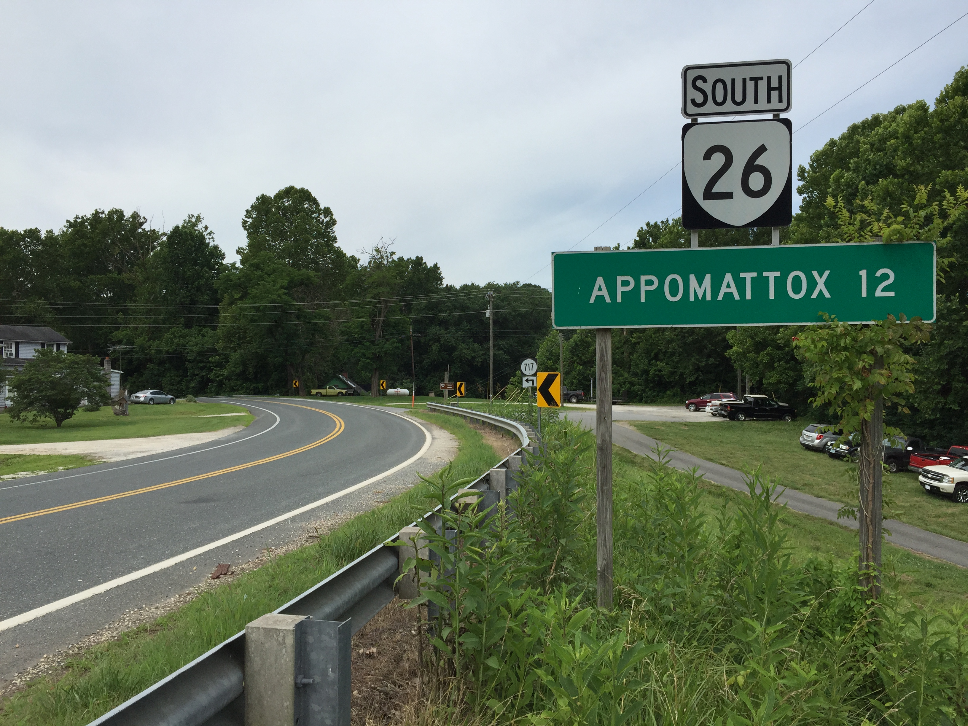 View south along Virginia State Route 26 (Oakville Road) at U.S. Route 60 (Richmond Highway) in Bent Creek, Appomattox County, Virginia